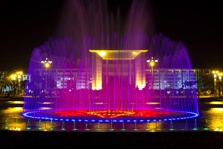 Night view in Chongzuo